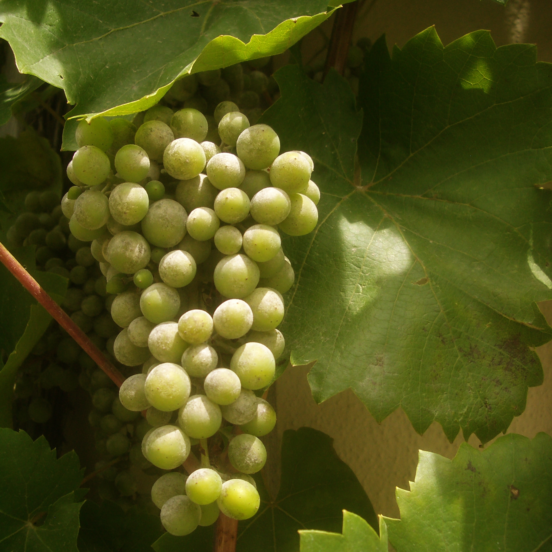 From the author: "Grapes that grow on the west front of the Gasthaus in Zeilitzheim, Germany. Regent (red grapes)"